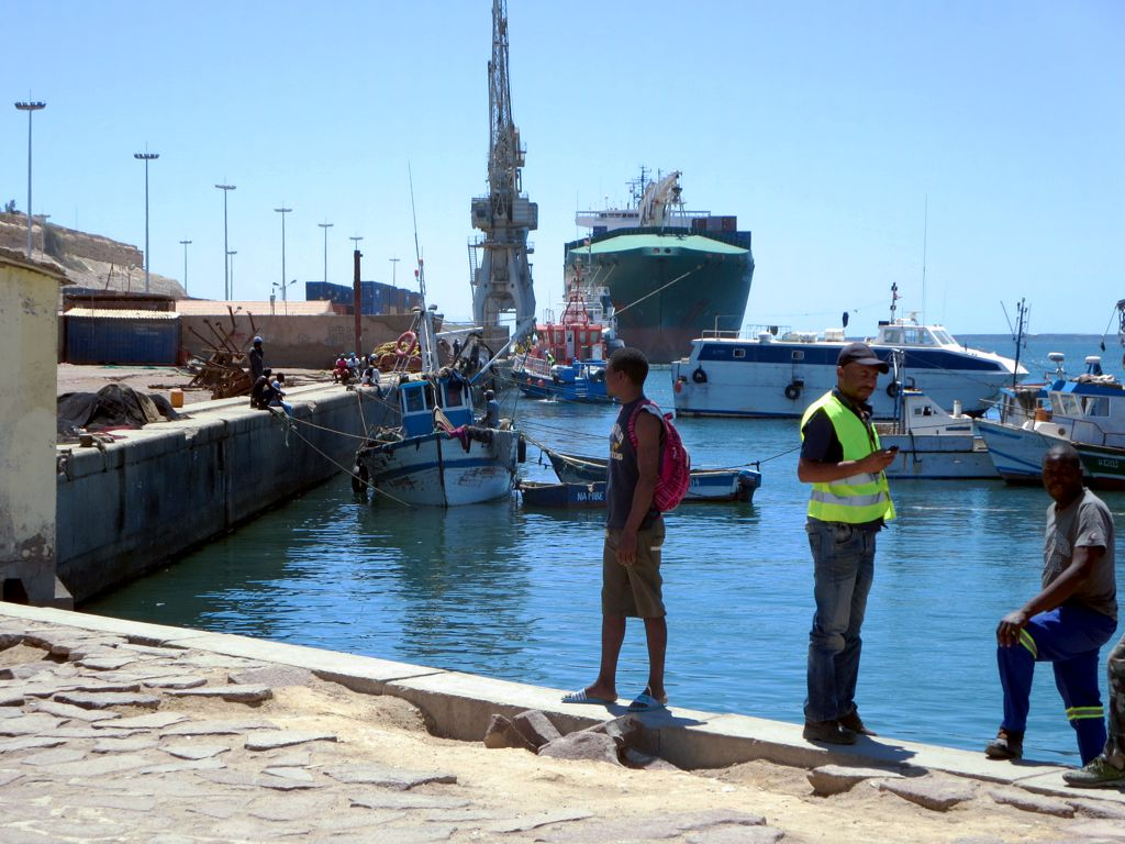 The Porto do Namibe is the main Atlantic Ocean port for southern Angola and the third largest in the country.